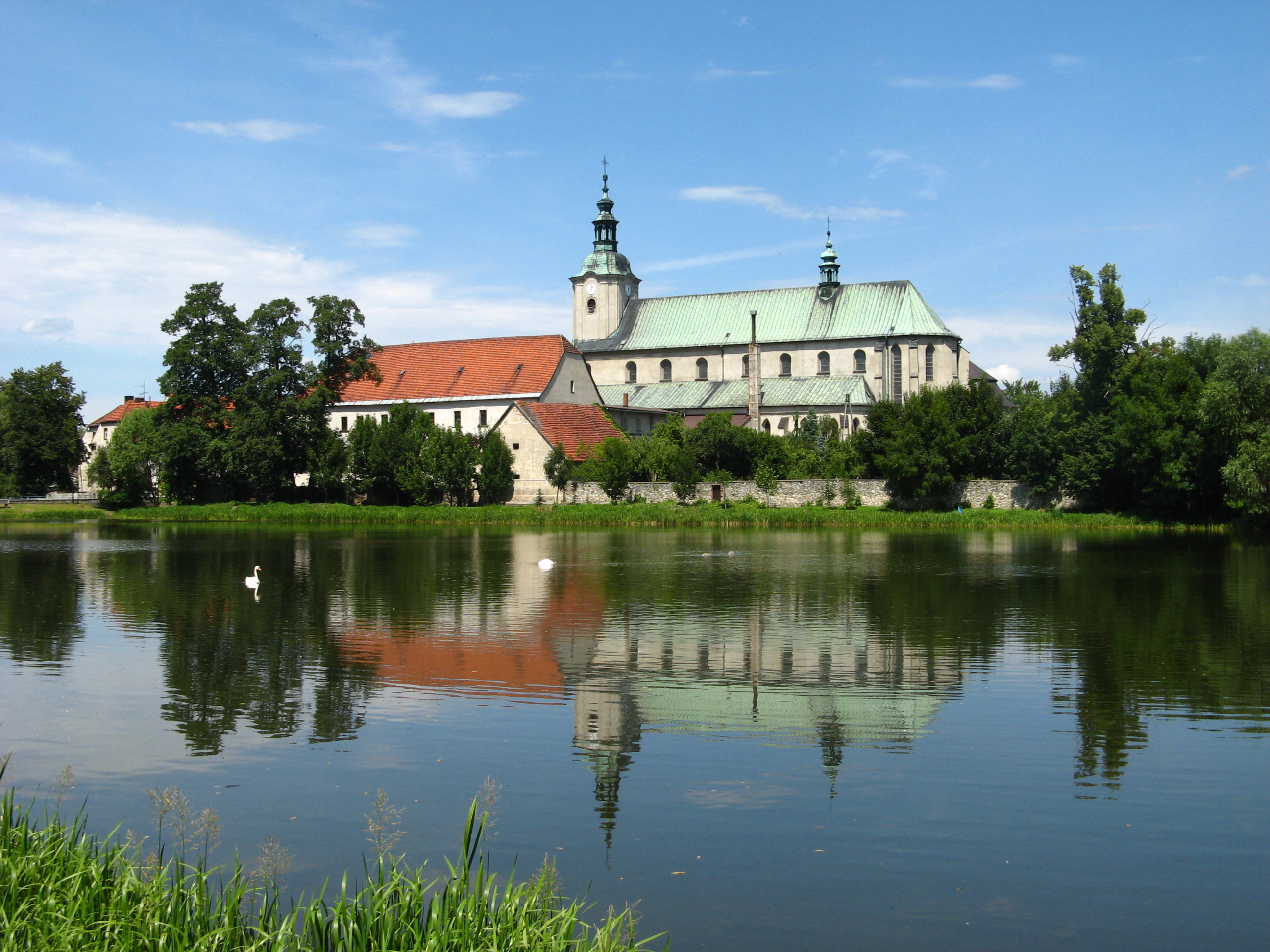 Monastery Church in Jemielnica (Poland)